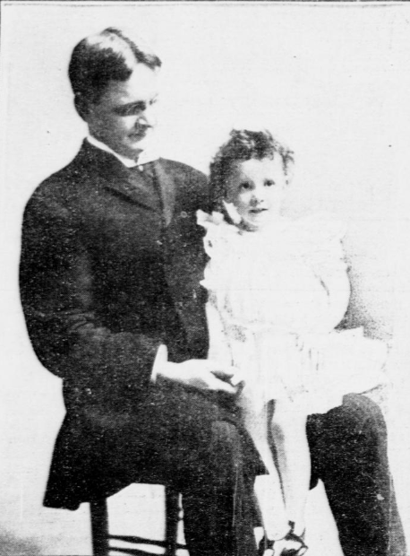 Edward R O'Malley and Daughter Eileen - New-York Tribune, November 1, 1908